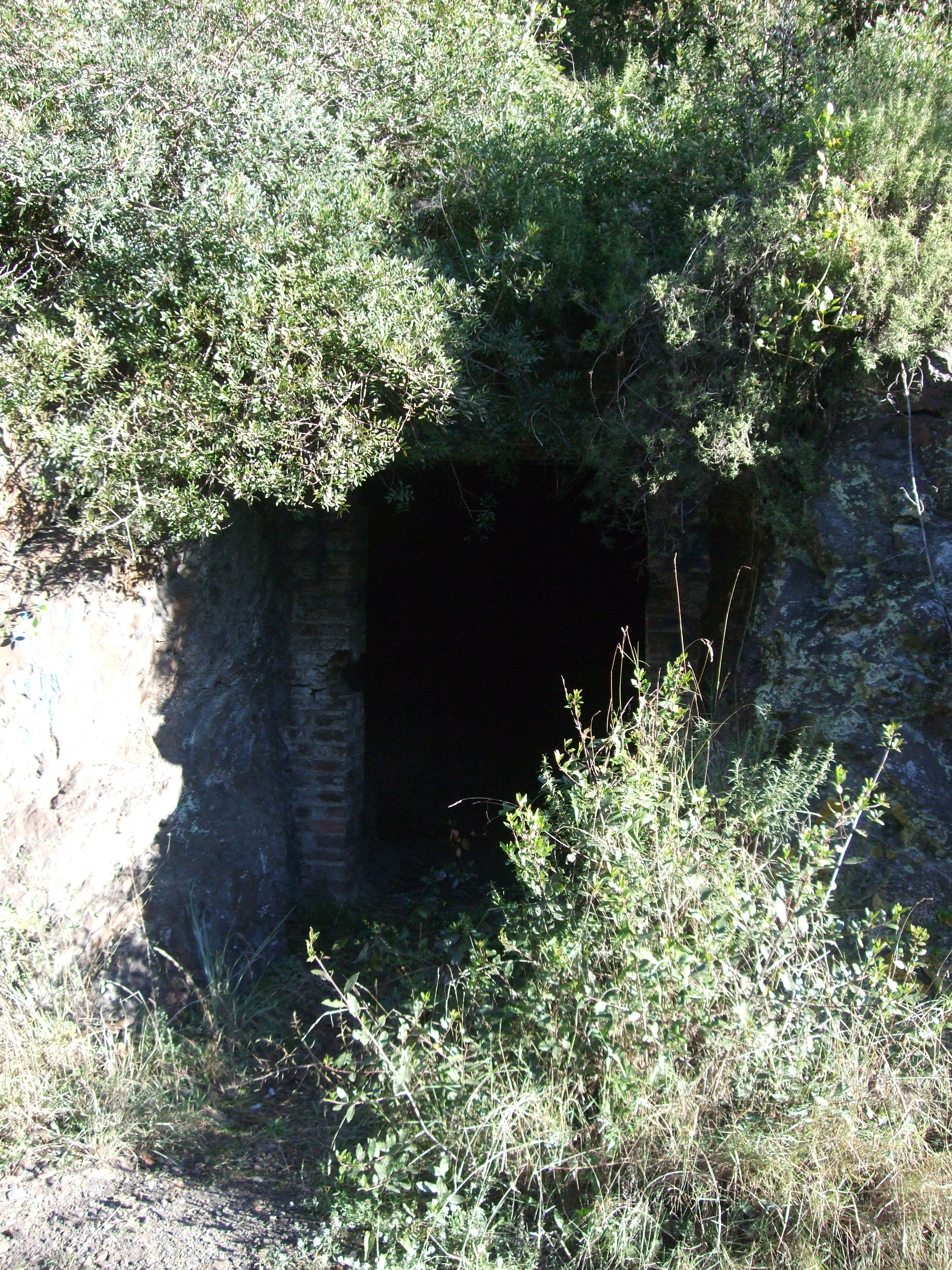 Gate to Can Palomeres mines, Malgrat de Mar